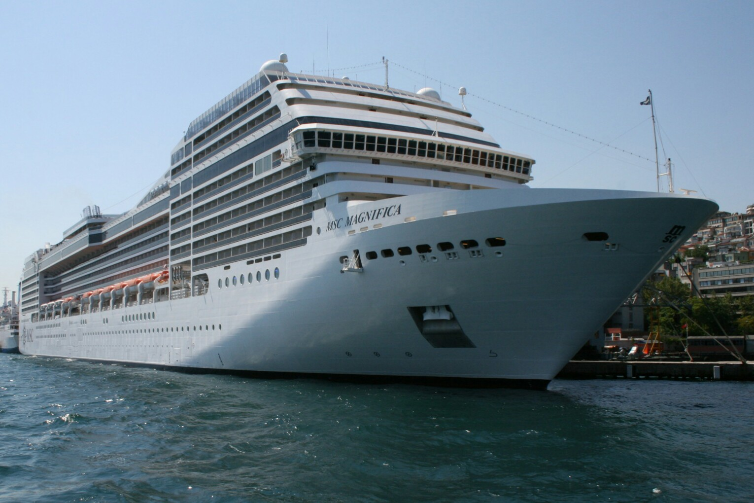 MSC Magnifica in Turkey